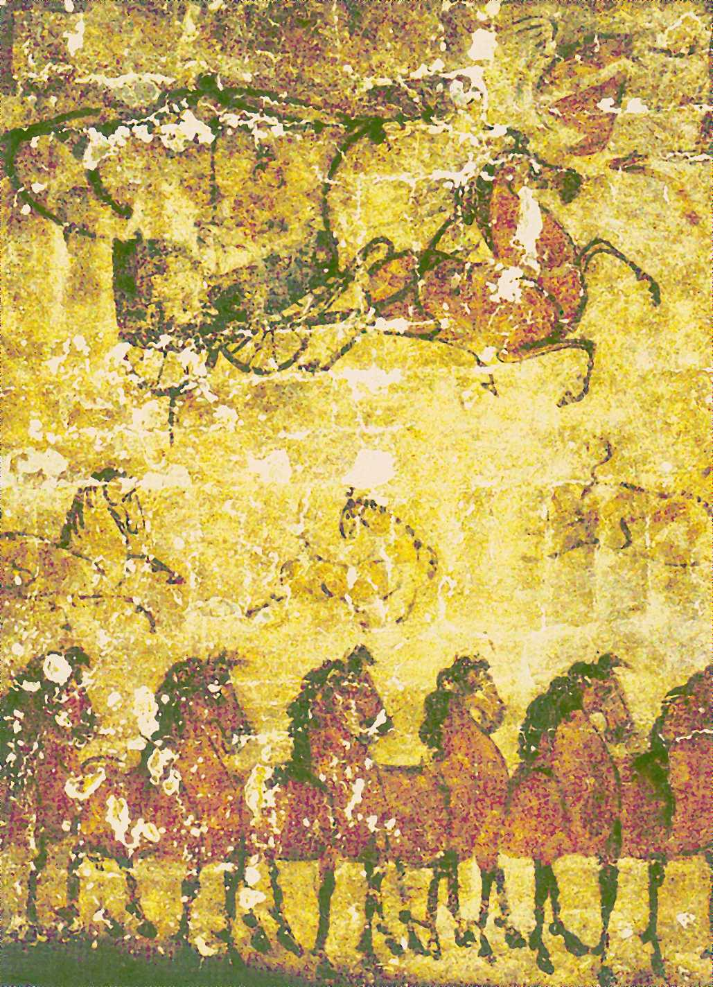 Carts and horses going out, 137cm x 201 cm, Eastern Han Dynasty, China; one of 57 murals from the Nei Menggu Helingeer (or Holingor) Tomb in Inner Mongolia. Buried at the tomb as a prominent official, landowner, and colonel of the Wuhuan Army. This mural is one of many found at the site, including murals depicting agrarian labor at his wealthy manor home.